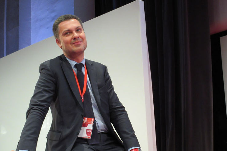 Luca Visenini elected at ETUC Congress in Paris - October 2015